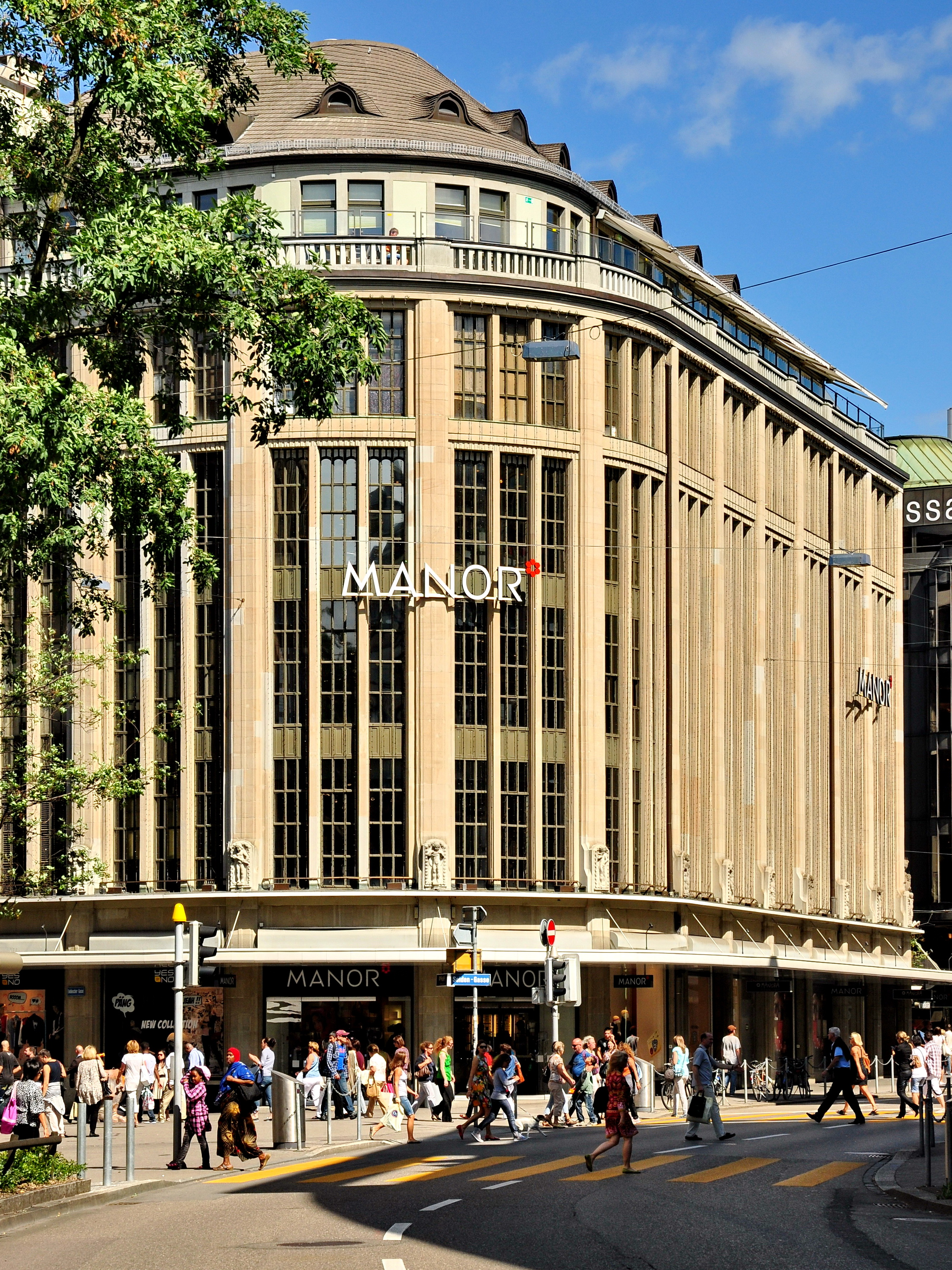 Manor 75 in Zürich-City (Switzerland)